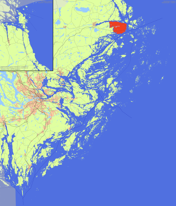 Location of the peninsula Rådmansö